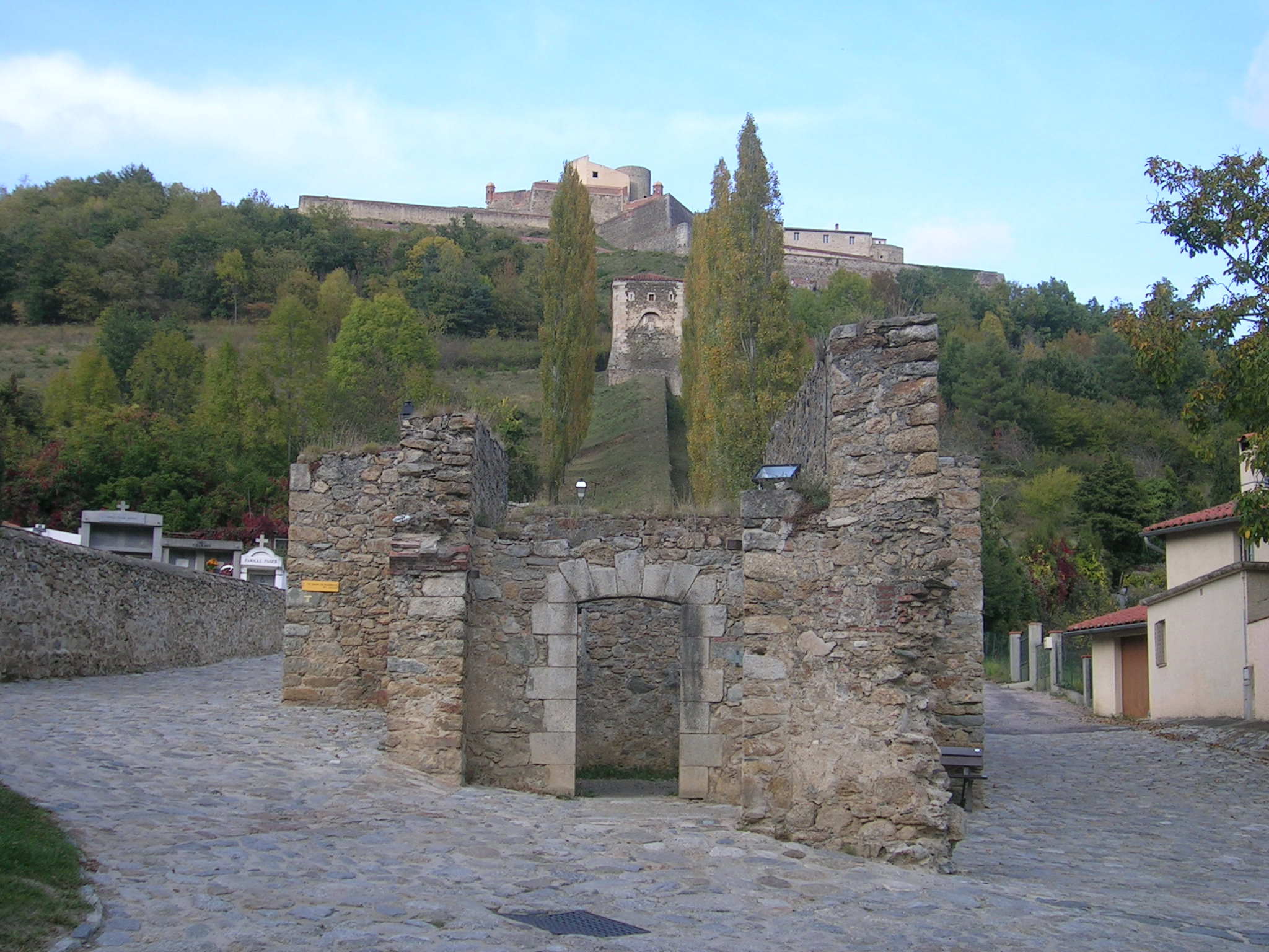 Prats de Molló, North Catalonia, France